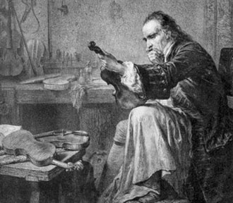 Antonio Stradivari at work